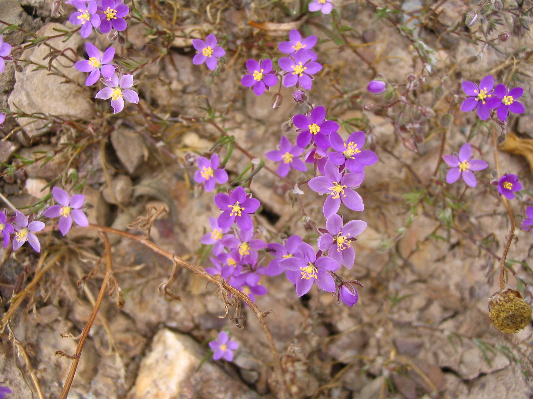 Spergularia purpurea